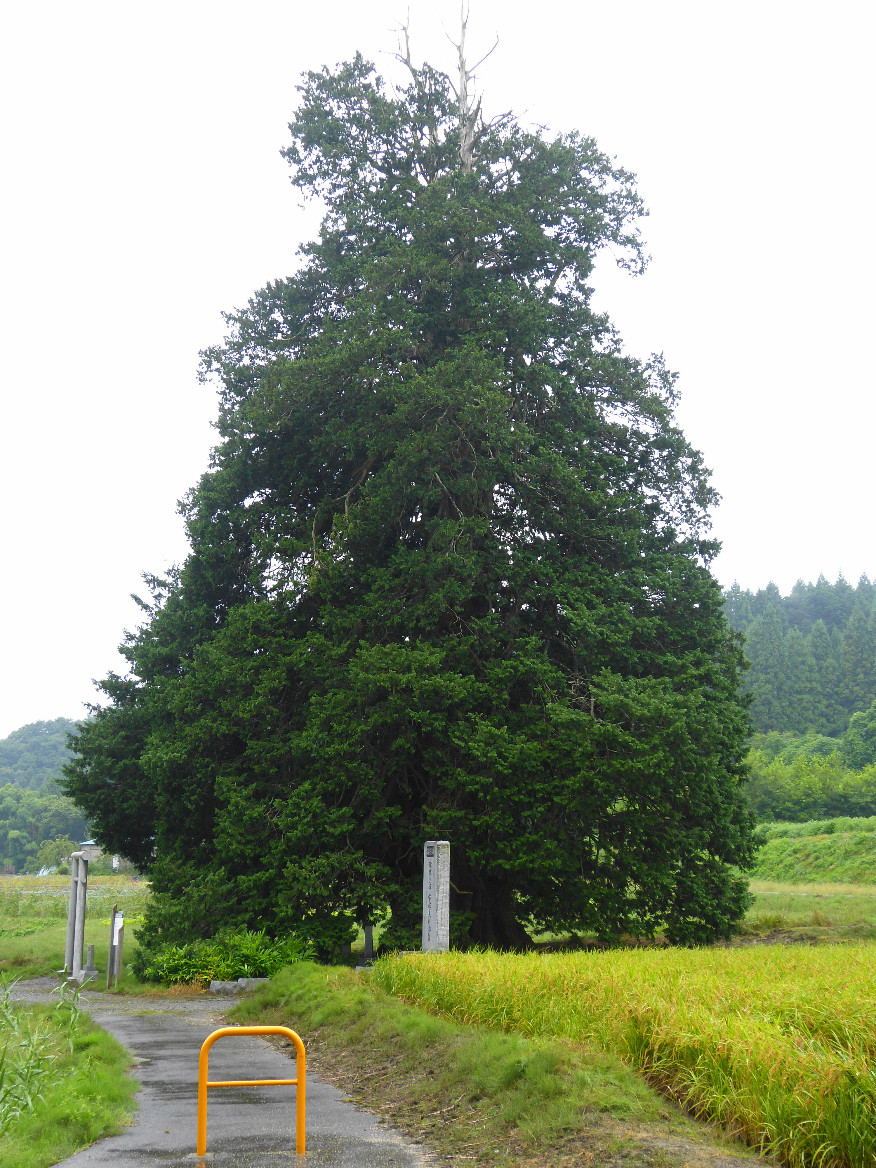 Sawajiri no Ohinoki(Sawara),Fukushima prefecture, Japan